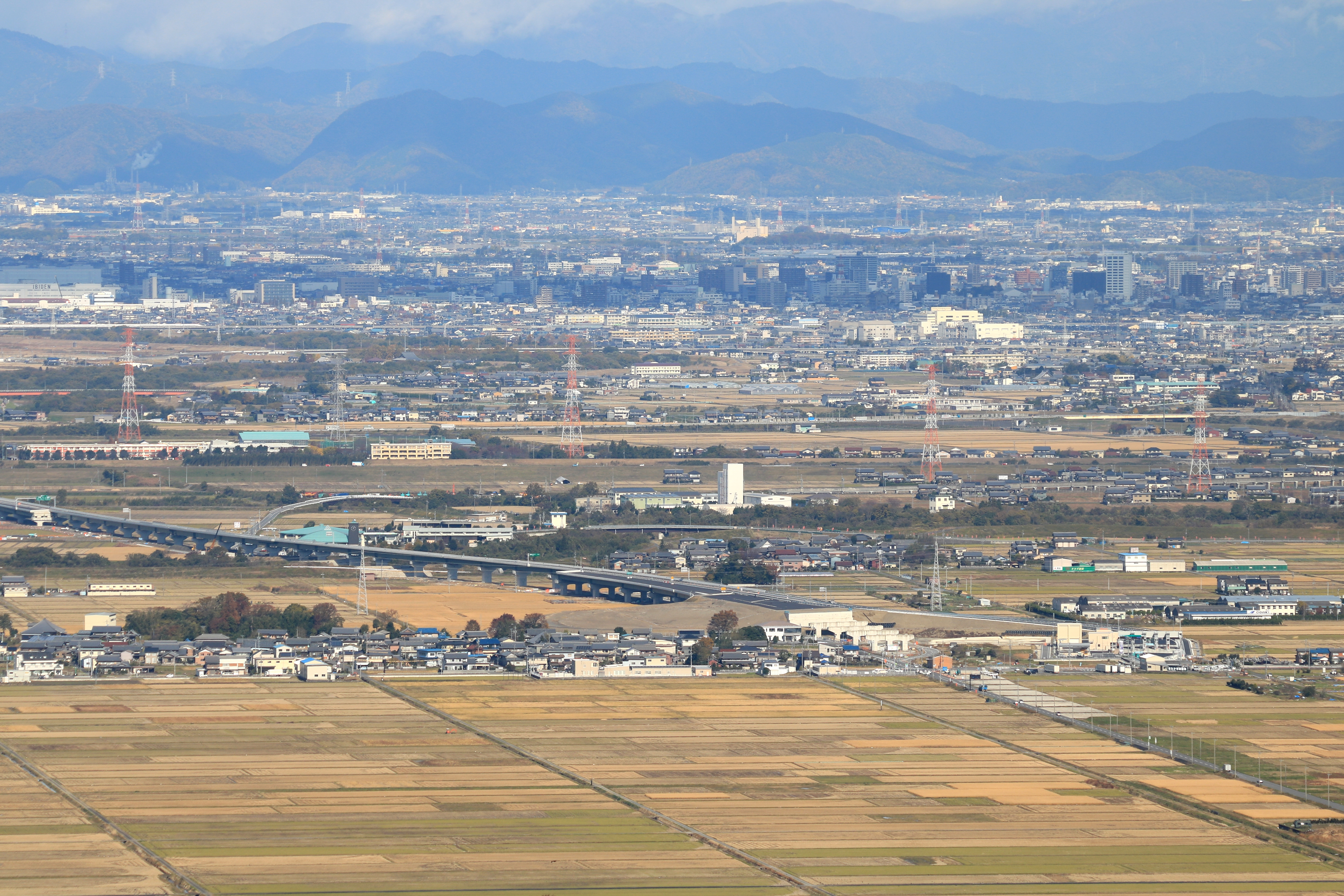 Yoro Interchange seen from Terayama Kannon on Yoro Mountains in Gifu Prefecture, Japan.